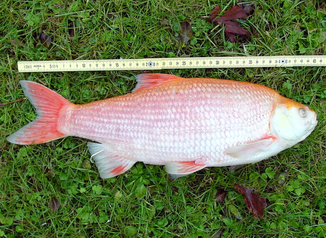 Goldorfe, 14 and 1/2 years old